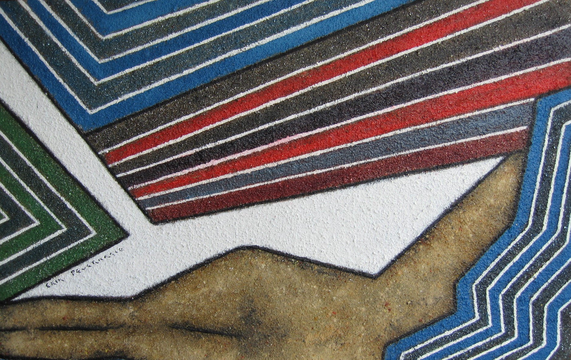 (90 x 120cm), Oil and metal on canvas. Women may sometimes feel like aliens emerging in a hesitant future, in a men's world with impervious codes, and have the impression to be like dots in uncharted territory. Discovering the crucial points, which don't line up with the achievability of reality, may be a key to the right compass in life. If we are not apt to steer our life and engineer our individuality, we may become preys of the pecking order and be constrained to keep on loitering like panting cardboard characters turning into walking dead. Some women don't care about decorum and conventions, wanting, first and foremost, being independent. They don't like to waste time with people they don't like, preferring to live a life as a 'tramp,' with ' the free, cool wind in their hair,' no matter what people might say, not in the least concerned with any pecking order. Like many women, numerous strangers and newcomers in big cities may feel surrounded by a hazy cloud of anonymity and a wall of seclusion. They remain, unadulterated aliens, unplumbed individuals in a terra incognita. Being part of a melting pot with distinctive identities, they try to assert their personality and take ownership of their respective individuality. Tensions may simmer, however, and the underlying causation might be difficult to assess. When aliens come and settle in suburban areas, they are often surprised about the perplexing behavior of the 'local tribes' and watch 'natives' like fish in aquariums. On the other hand, the flow of strangers is often reluctantly accepted by the natives, who are flabbergasted by the new faces 'decorating' or 'contaminating' their environment and the bizarre conduct of the intruders may unsettle them. This double repulsion could be countered by better information and communication. Phenomenon: Communication Factual starting point : woman confronting townscape .